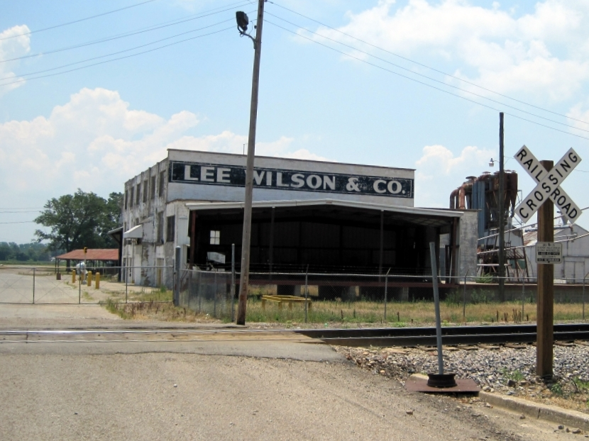 Wilson, Arkansas. Lee Wilson Co abandoned